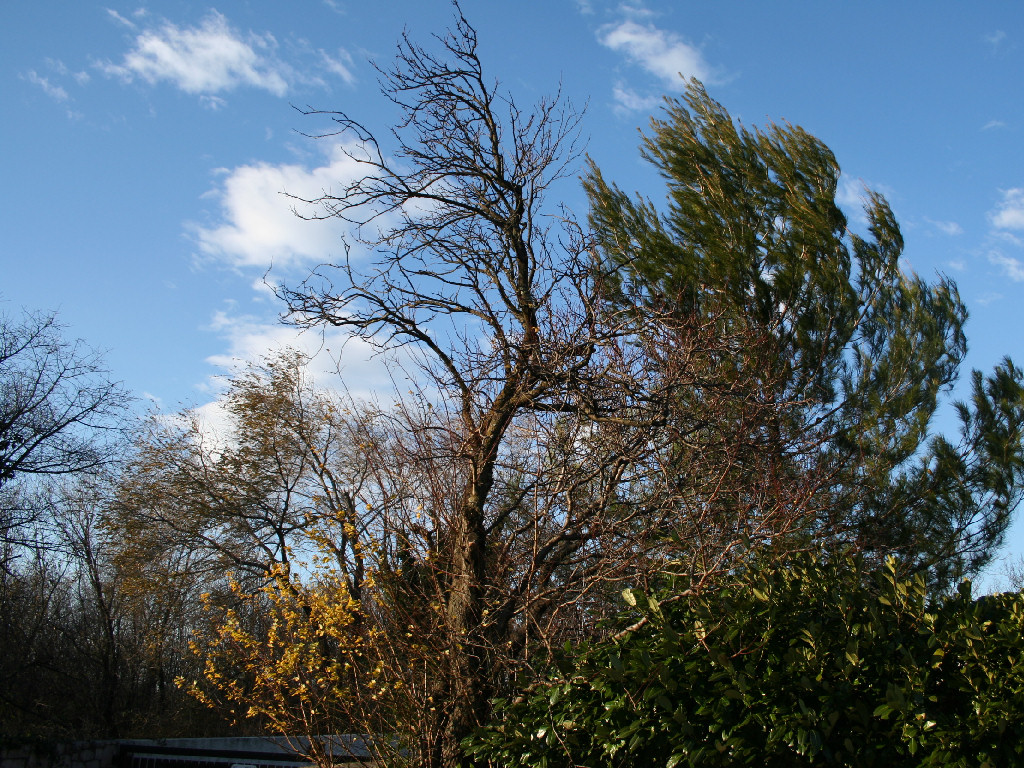 Inclined trees during blowing of burja (croatian bura, italian bora), a strong north-east wind in the Adriatic region